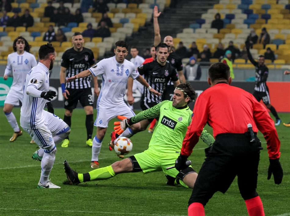 Dynamo Kyiv vs Partizan Belgrade in December 2017